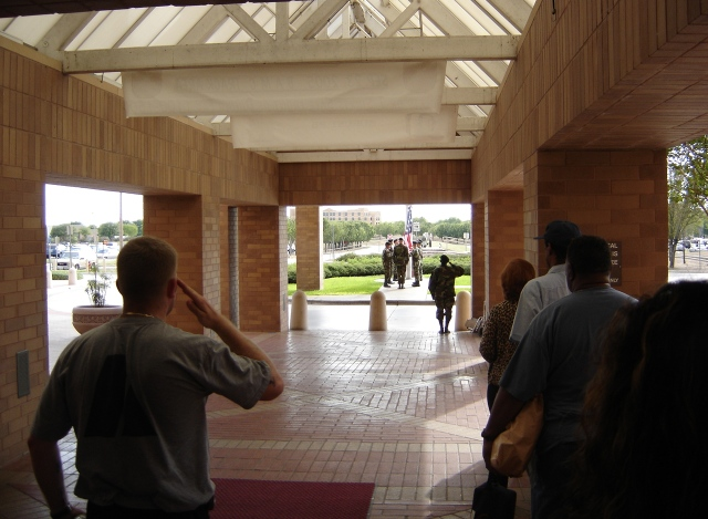 BAMC, San Antonio, Texas